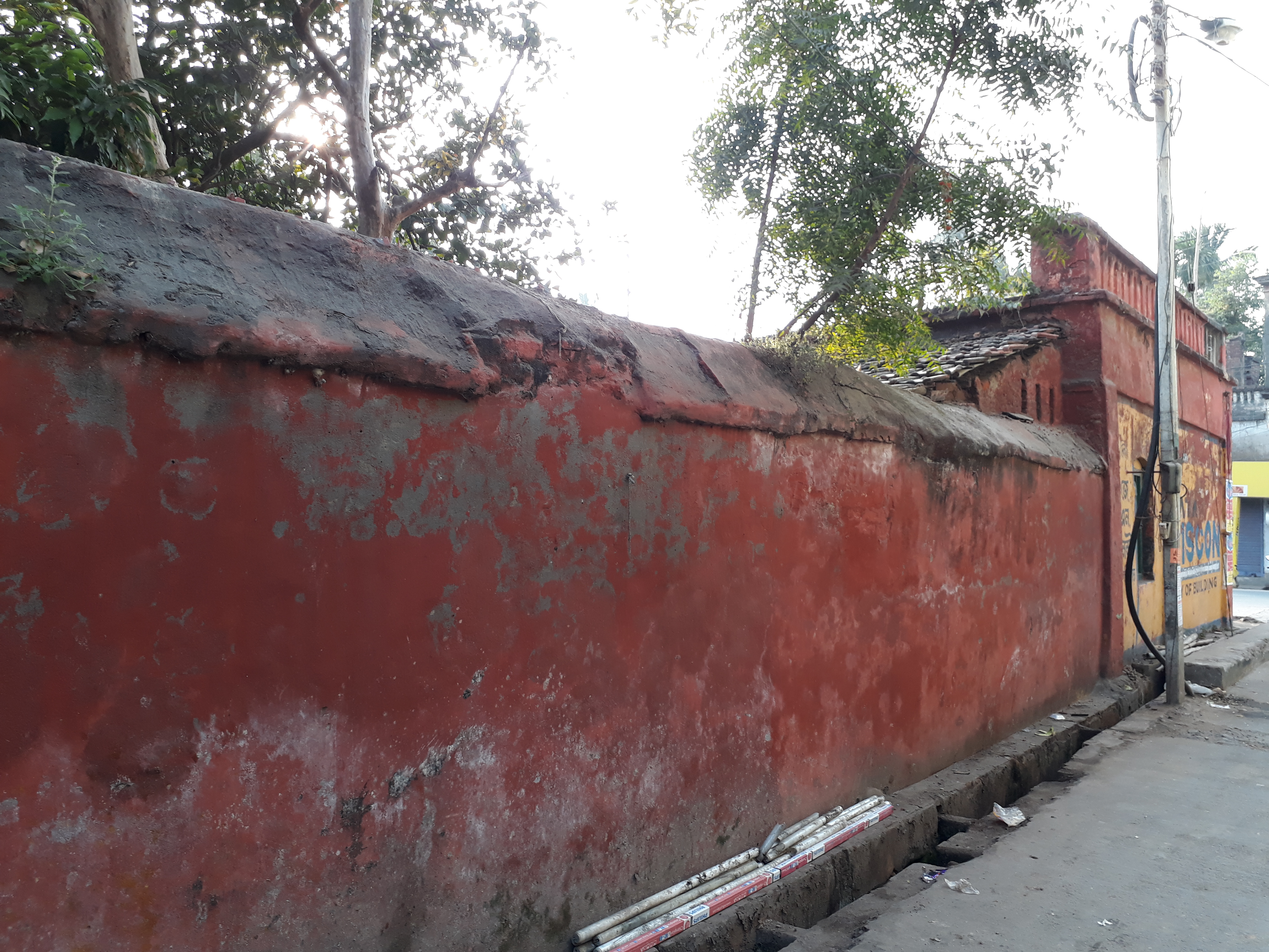 The birth place of bengali revolutionary Kanailal Dutta at Chandannagar, Hooghly.